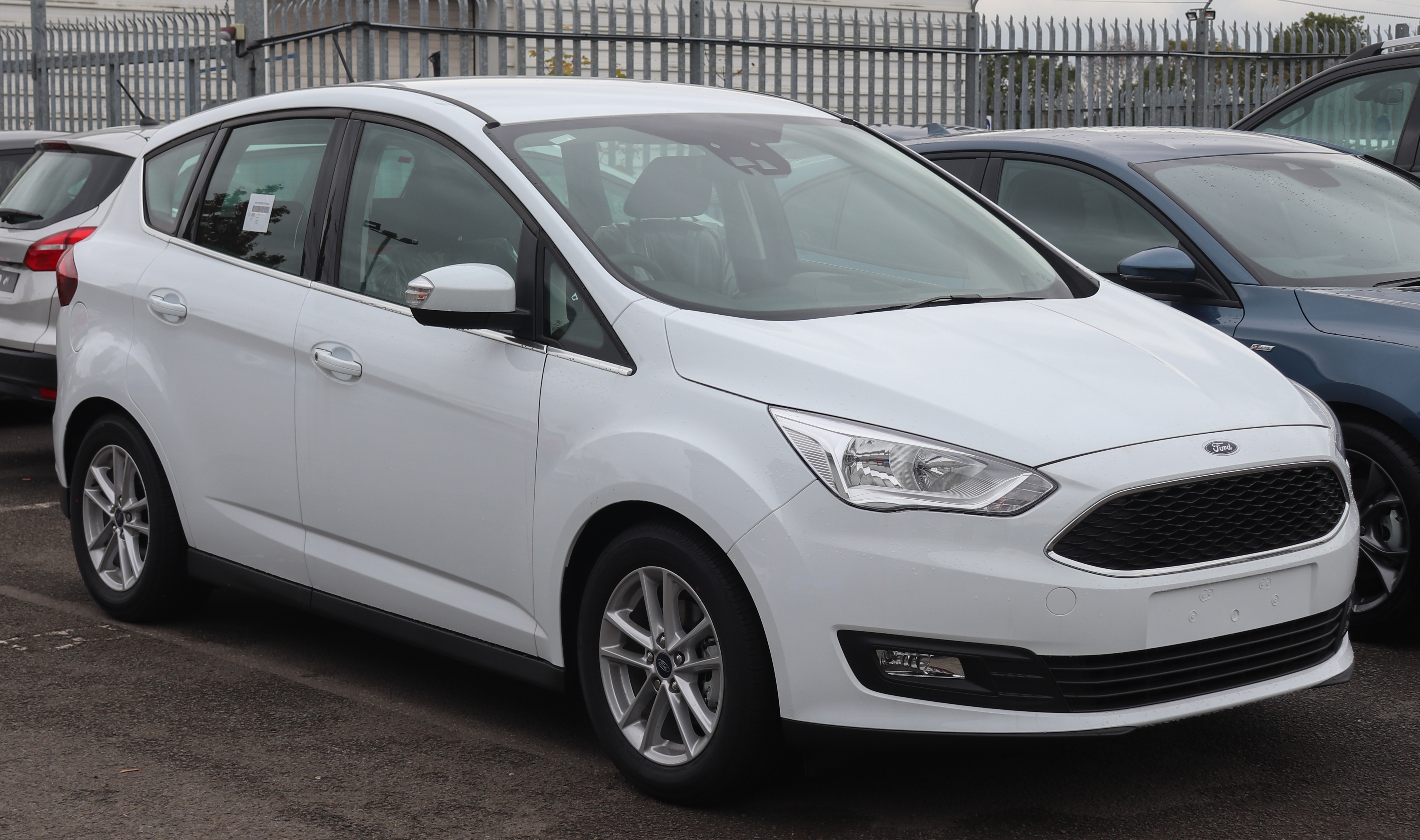 2018 Ford C-Max facelift Front Taken in Leamington Spa